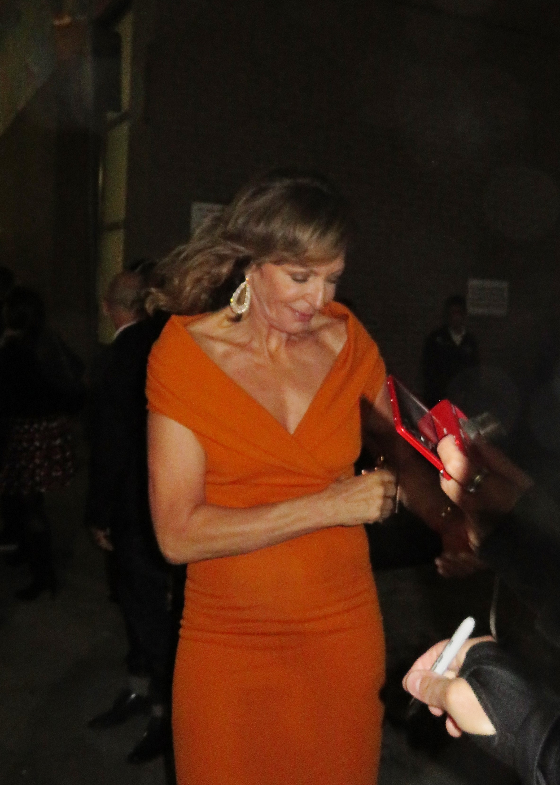 Allison Janney at the premiere of I Tonya, 2017 Toronto Film Festival